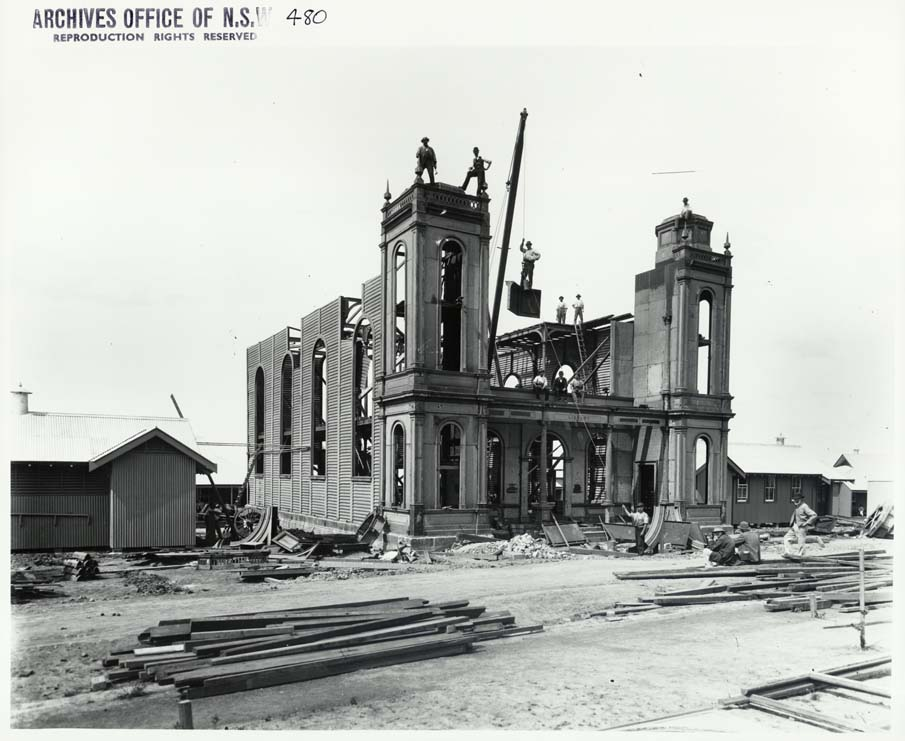 [Re-erection of the Iron Church / Free Public Library lending branch as a chapel at Rookwood Asylum / Lidcombe Hospital] Dated: n.d. Digital ID: 4481_a026_000442 Rights: We'd love to hear from you if you use our photos/documents. Many other photos in our collection are available to view and browse on our website using Photo Investigator.